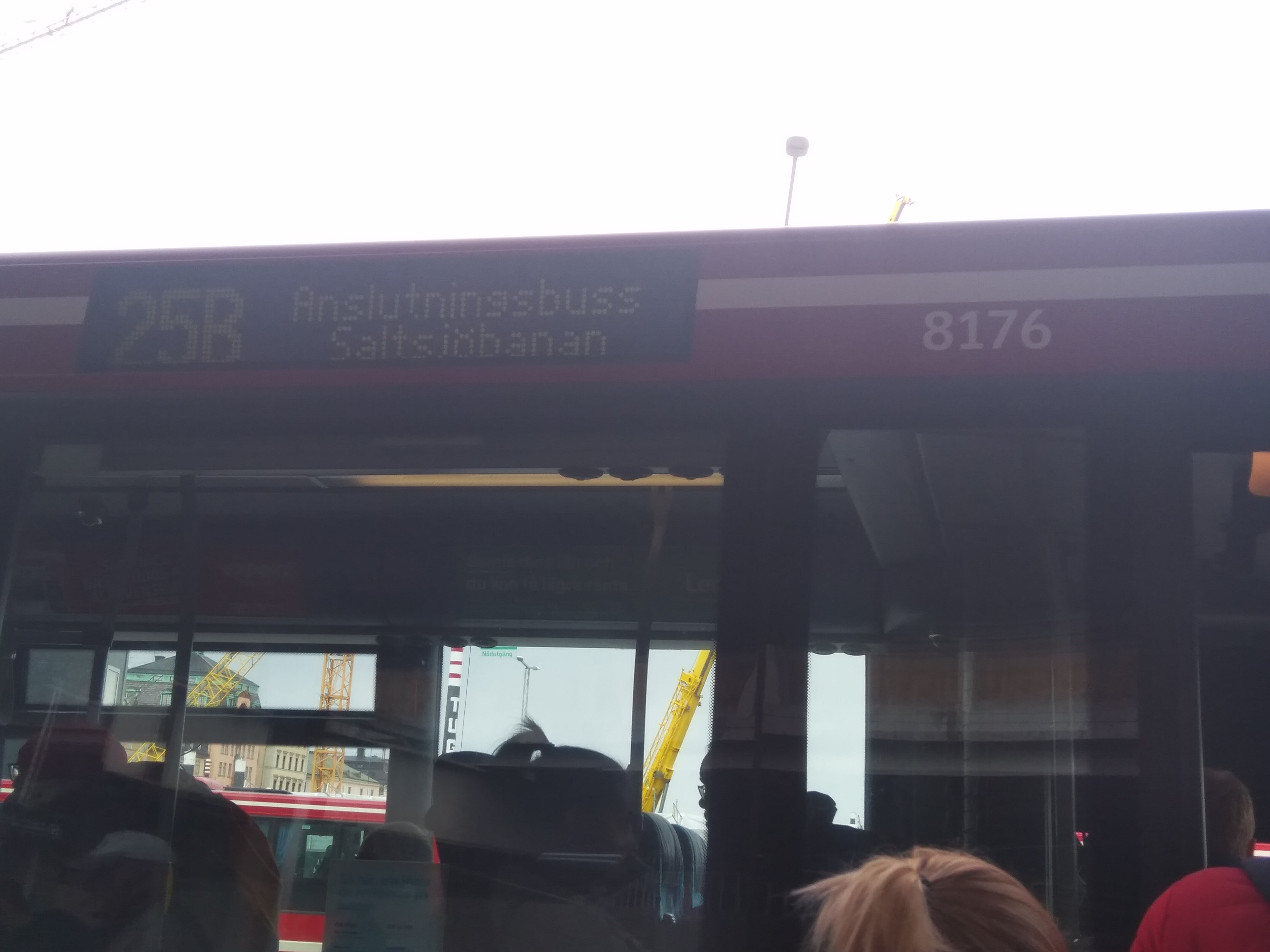 The bus serves route 25B, which replaces the rail section between Slussen and Henriksdal while reconstruction is in progress